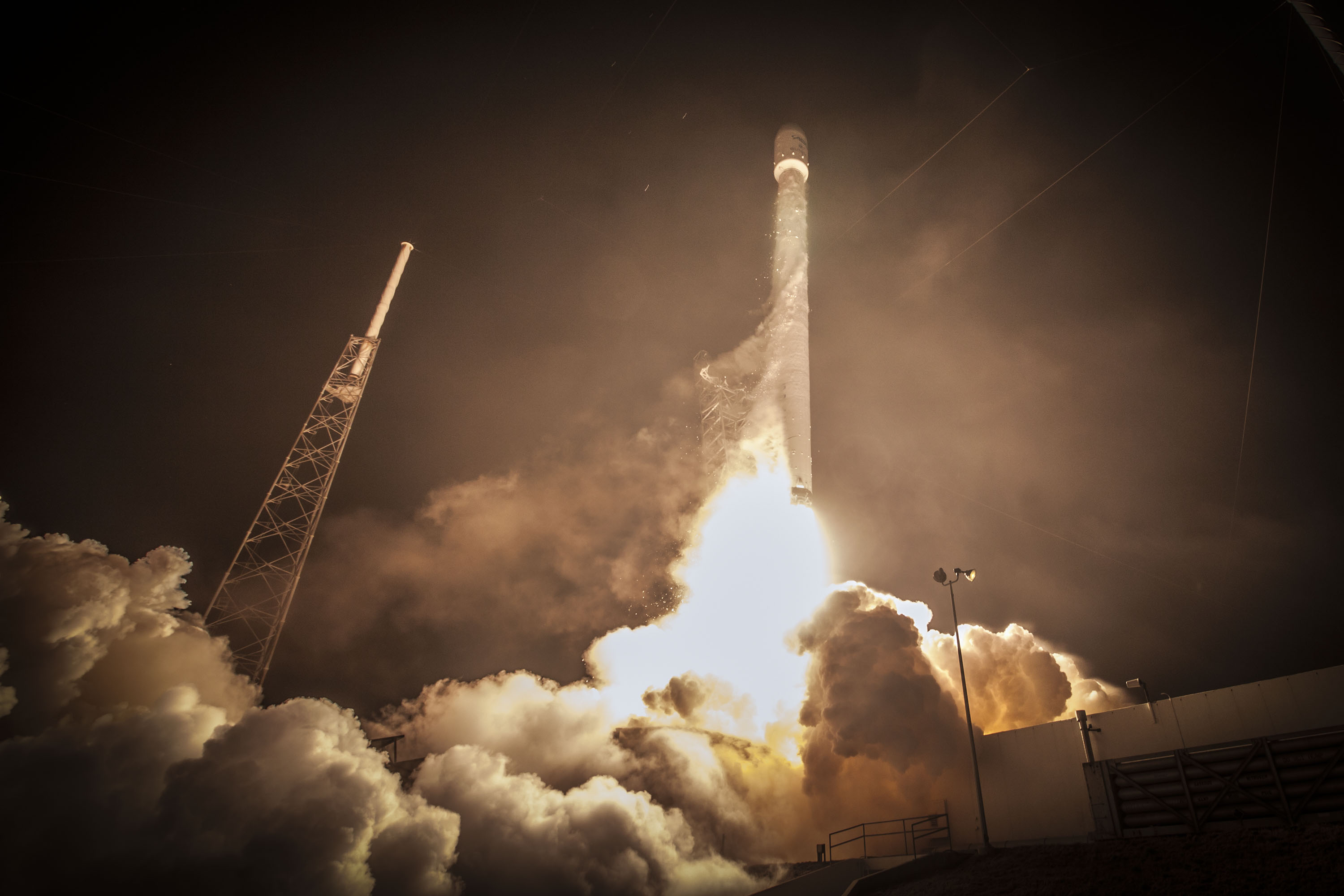 SpaceX's Falcon 9 rocket delivered the ABS 3A and EUTELSAT 115 West B satellites to a supersynchronous transfer orbit, launching from Space Launch Complex 40 at Cape Canaveral Air Force Station, Florida on Sunday, March 1, 2015 at 10:50pm ET.